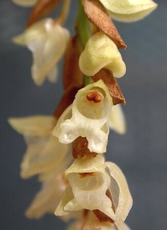 Pholidota imbricata